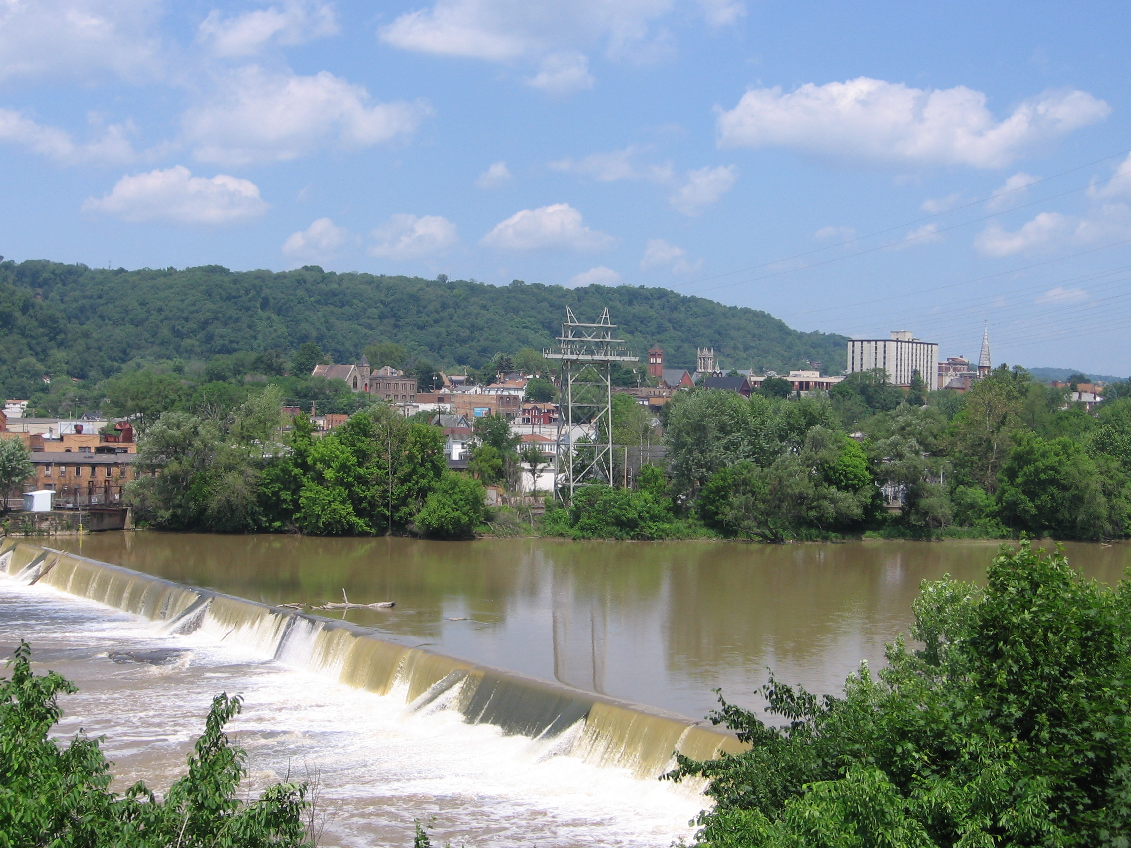 Beaver Falls, Pennsylvania, United States, seen from the borough of New Brighton.